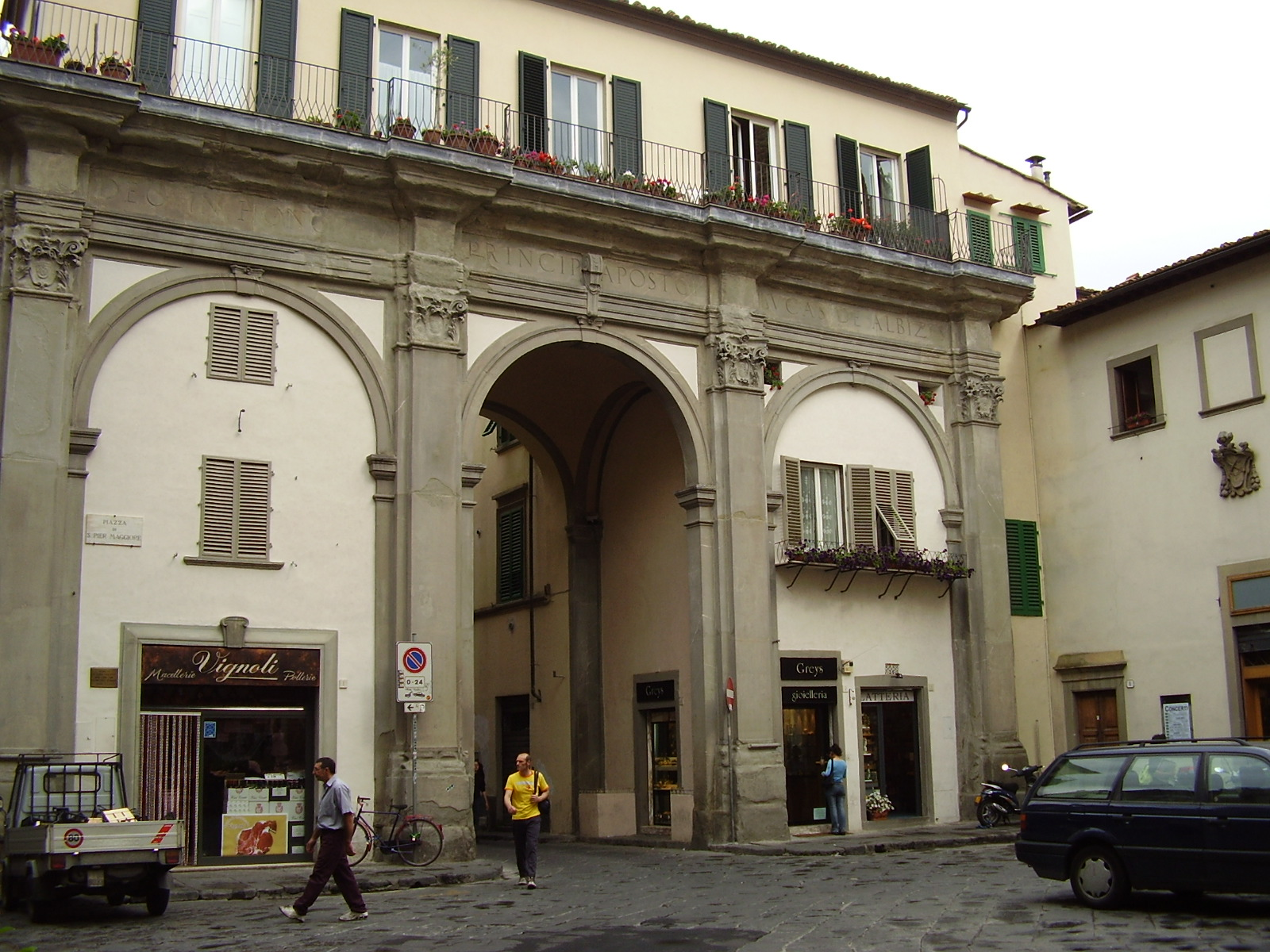 San Pier Maggiore ex-façade, ex-church in Florence, Italy